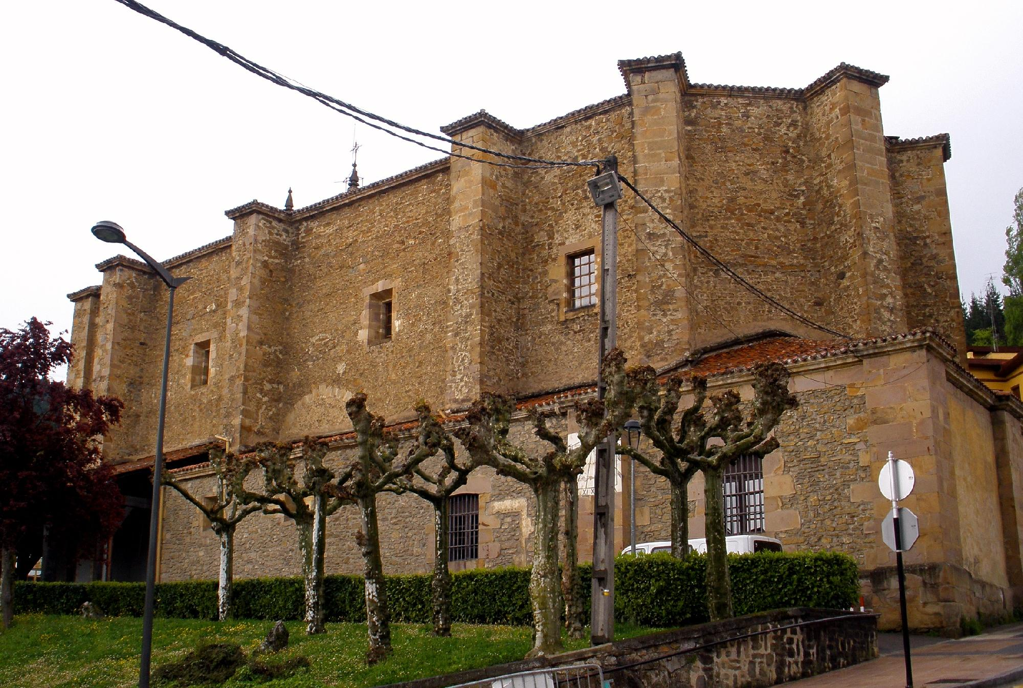 Iglesia parroquial de N. S. de la Asunción, en Beasain (Guipúzcoa, País Vasco, España)